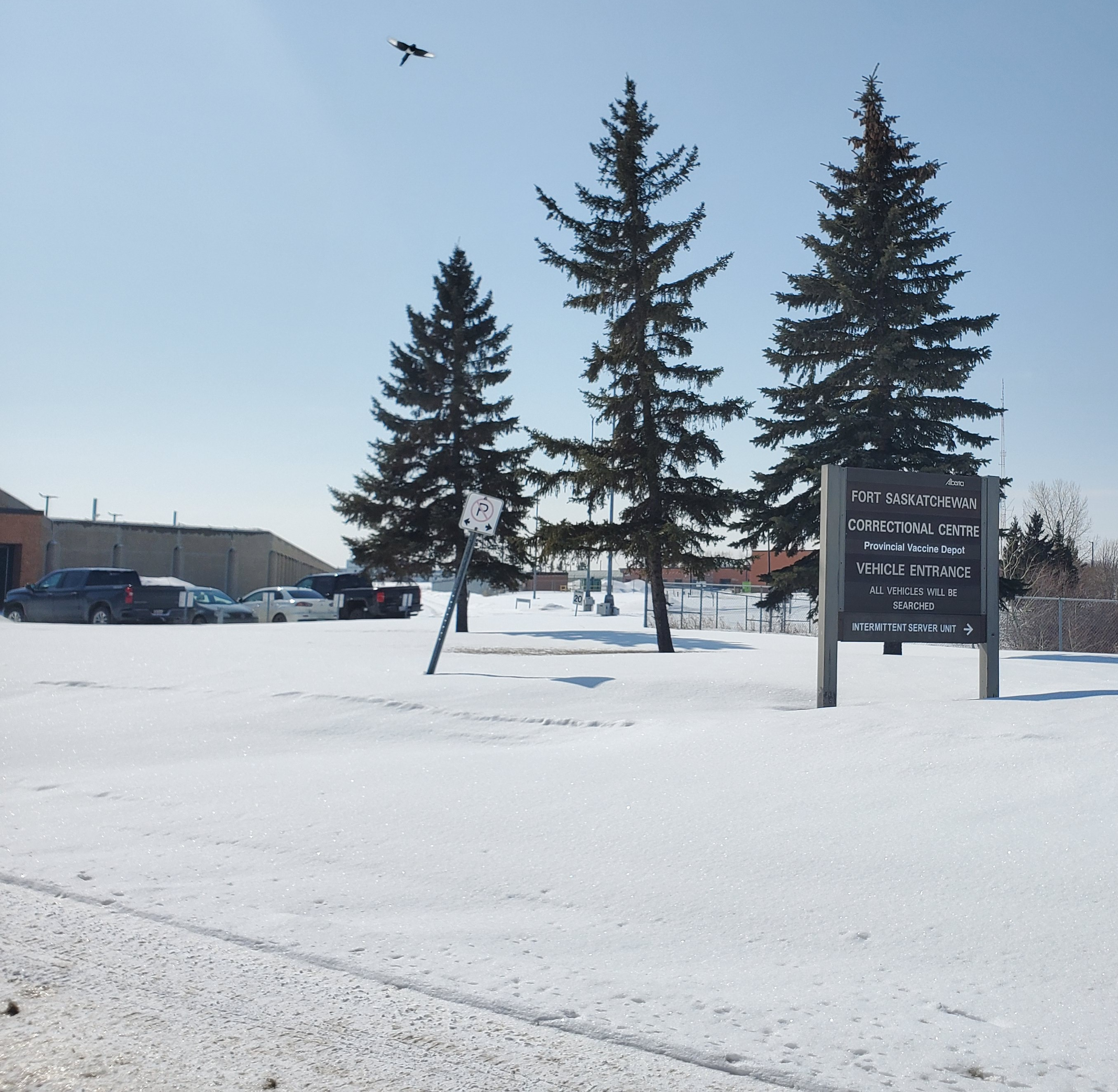 The entrance to the Fort Saskatchewan Correctional Centre